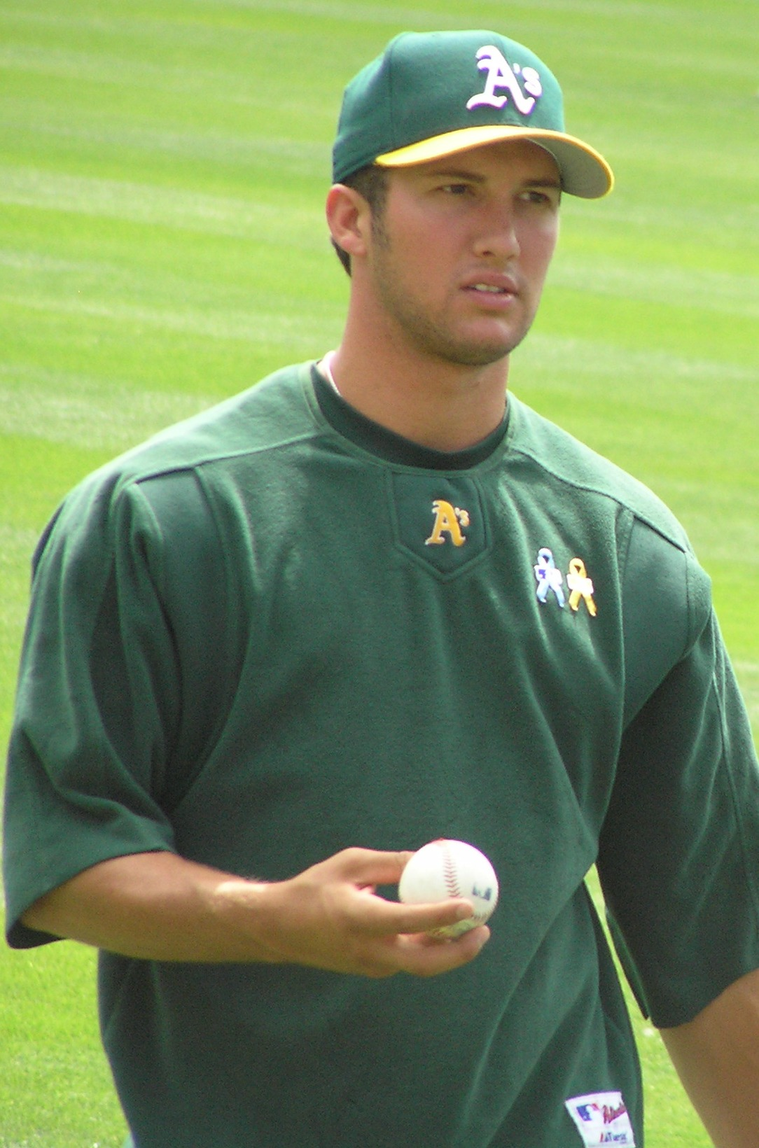 Photo by Justin Lafferty 17:15, 23 August 2006 . . Jlaff . . 1084×1640 (369,454 bytes)